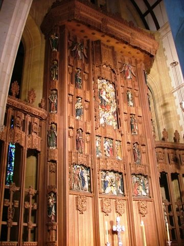 The reredos in St Peter's Cathedral in Adelaide carved by Nathaniel Hitch.This reredos is made from solid English oak and is 10.4m high. It was made at St Sidwell’s Art Works in Exeter, England by Herbert Read Company and designed by the architect, T.H.Lyon. Nathaniel Hitch carried out all the carving which consists of five panels around which are eighteen niches holding coloured and gilded figures. The central panel depicts Christ Reigning in Glory and below this are four panels each one covering an incident in St Peter’s life. The statues in the niches at the top of the reredos represent four Archangels, St Uriel, St Michael, St Gabriel and St Raphael. We have statues of the Saints, George, Patrick, Andrew and David and then Edward the Confessor, The Venerable Bede and St Augustine of Canterbury. We then have Martha of Bethany, Catherine of Alexandria, Barbara, Margaret of Antioch, St Agnes and finally the Virgin Mary as a teenager with her mother Anne and then as a mother with the infant Jesus.At the very bottom of the reredos we have panelling upon which are carved the emblems of the four evangelists Matthew, Mark, Luke and John.